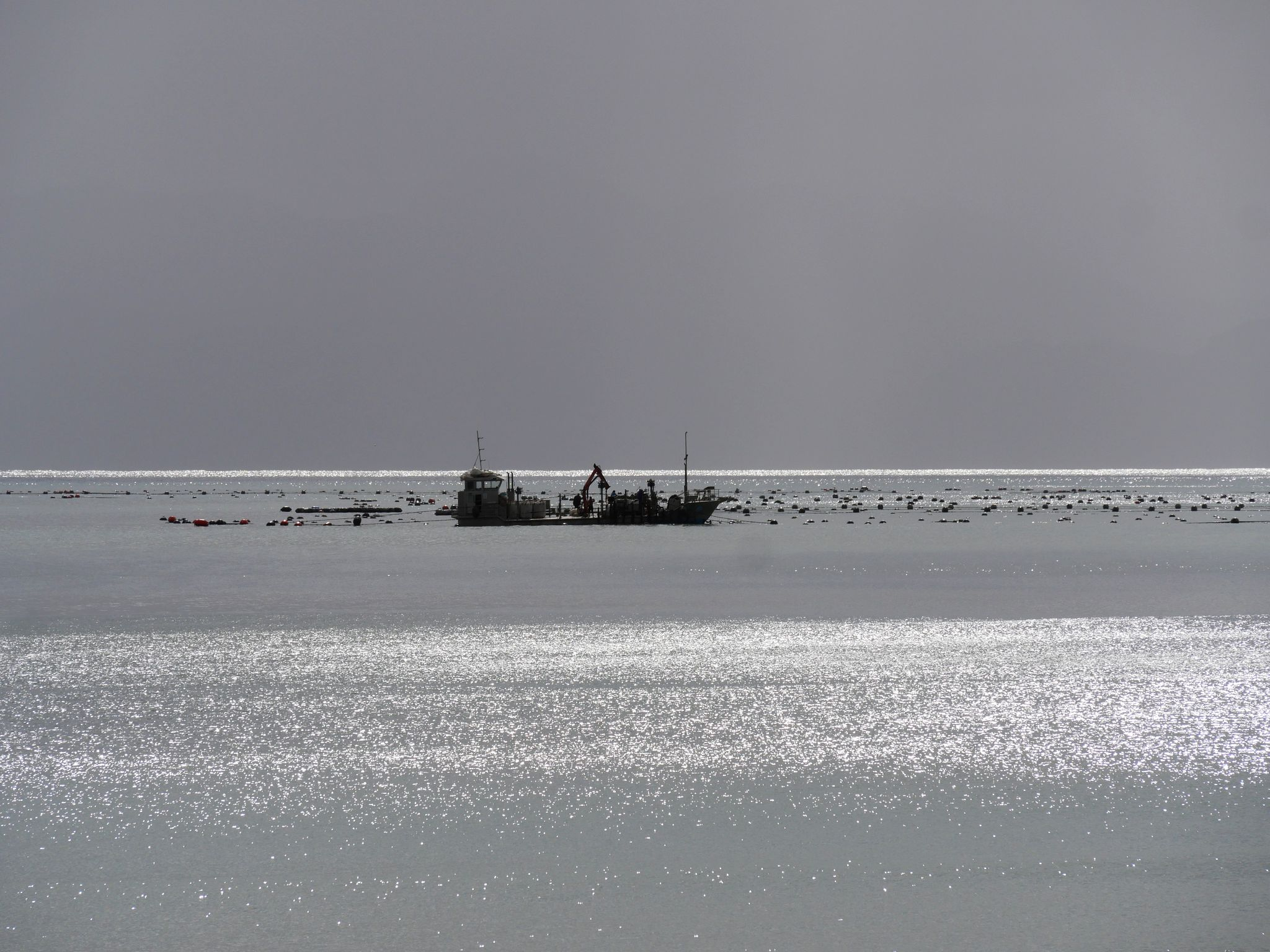 Firth of Thames, mussel farm at Matingerahi at the westcoast of Firth of Thames, North Island, New Zealand